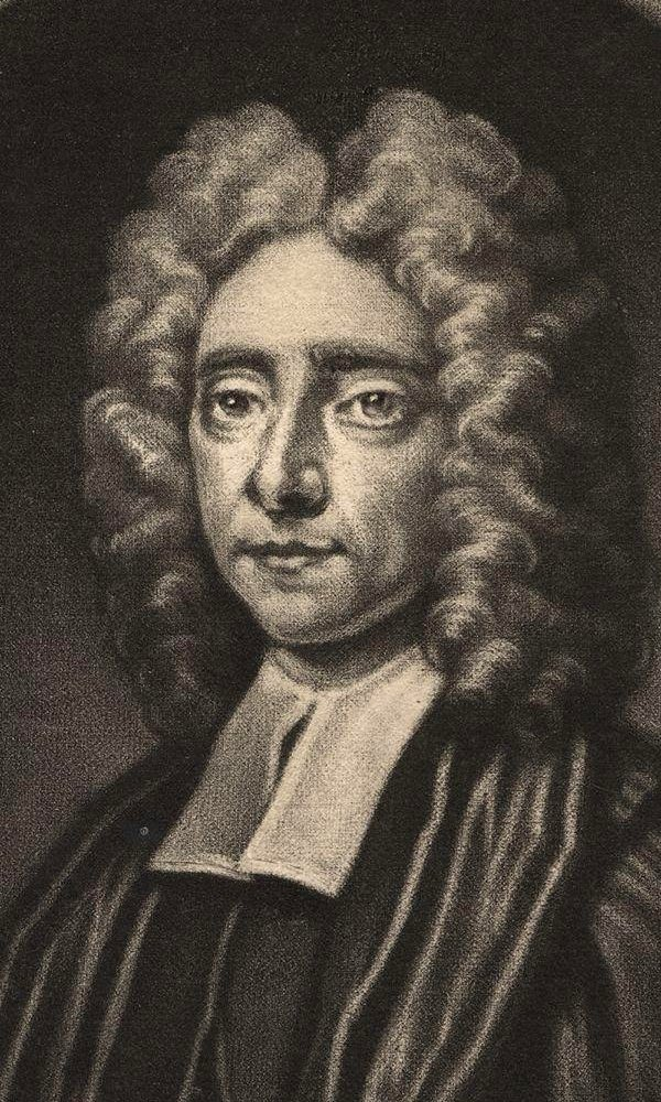 Samuel Clarke (11 October 1675 – 17 May 1729) was an English philosopher.